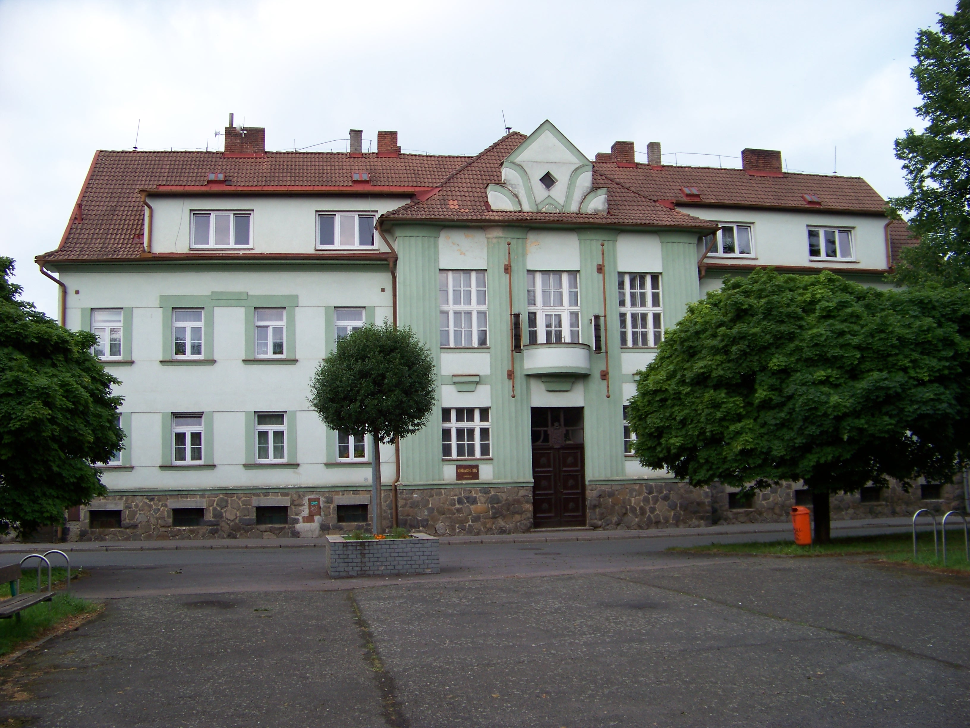 Prague-Uhříněves, Czech Republic. Husovo náměstí 380/34.